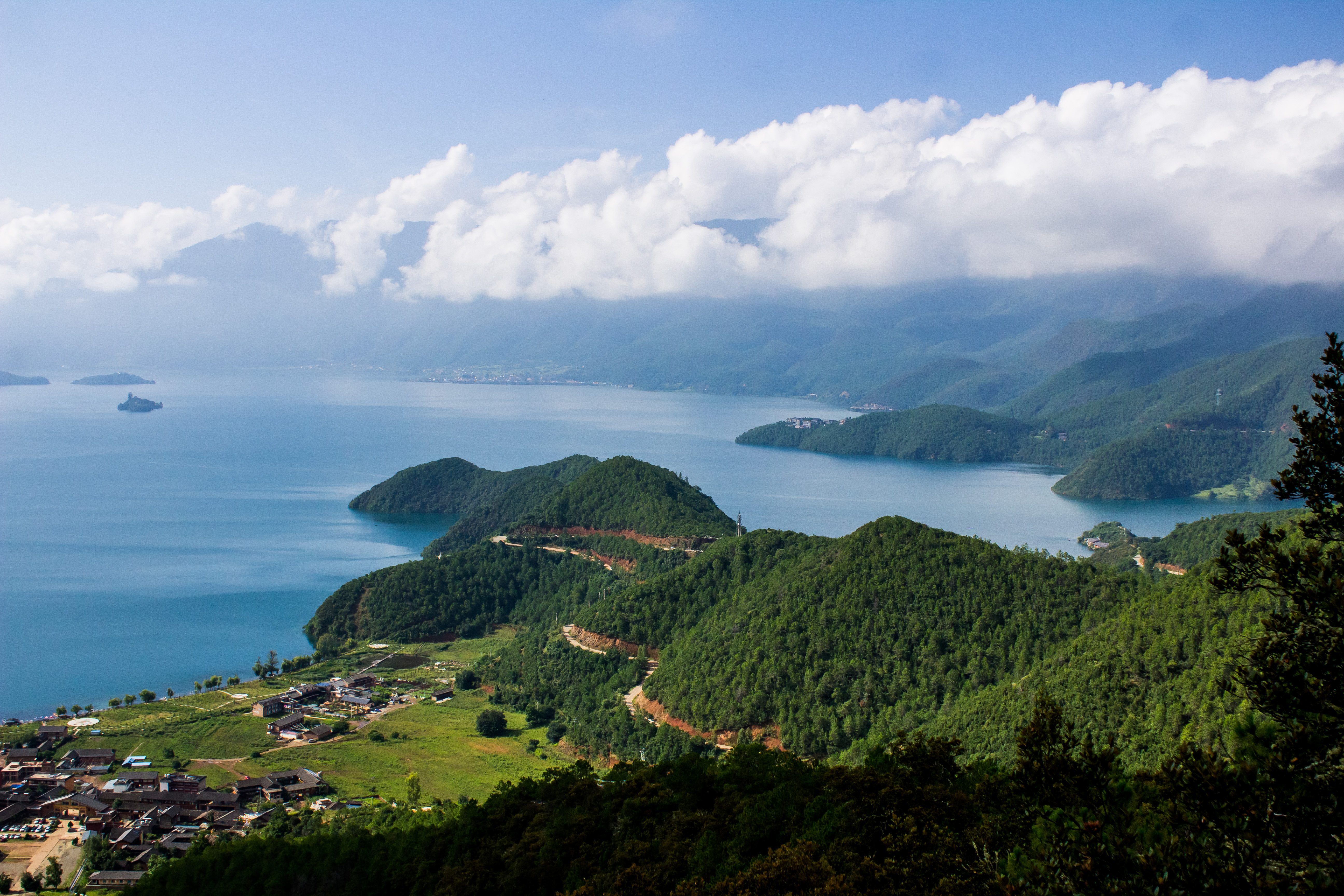 A view of Lugu Lake from the cable car.